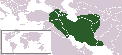 Arsacid Parthian Empire ca. 1st century BCE